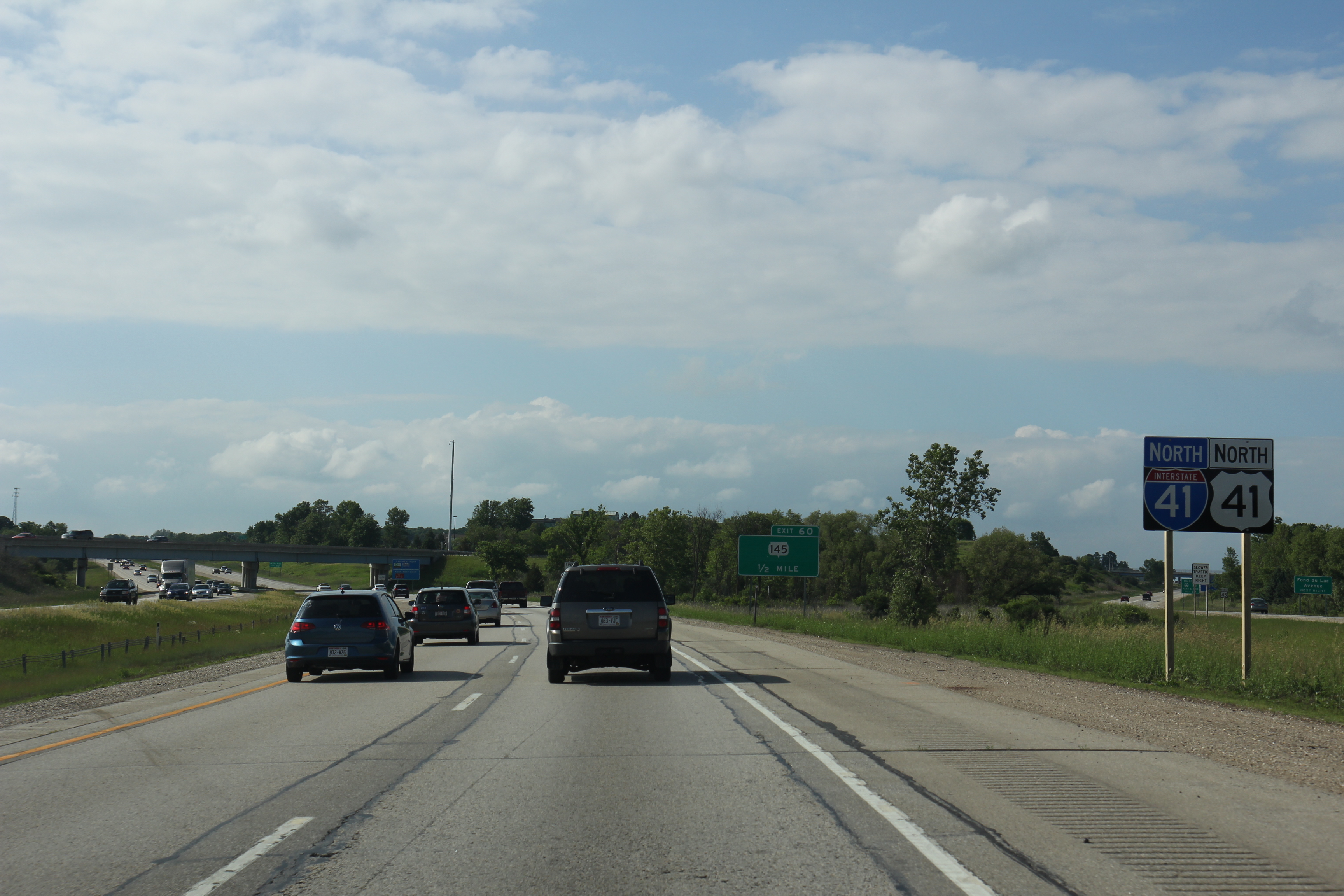 A newly-installed Interstate 41 sign just south of Wisconsin Highway 145